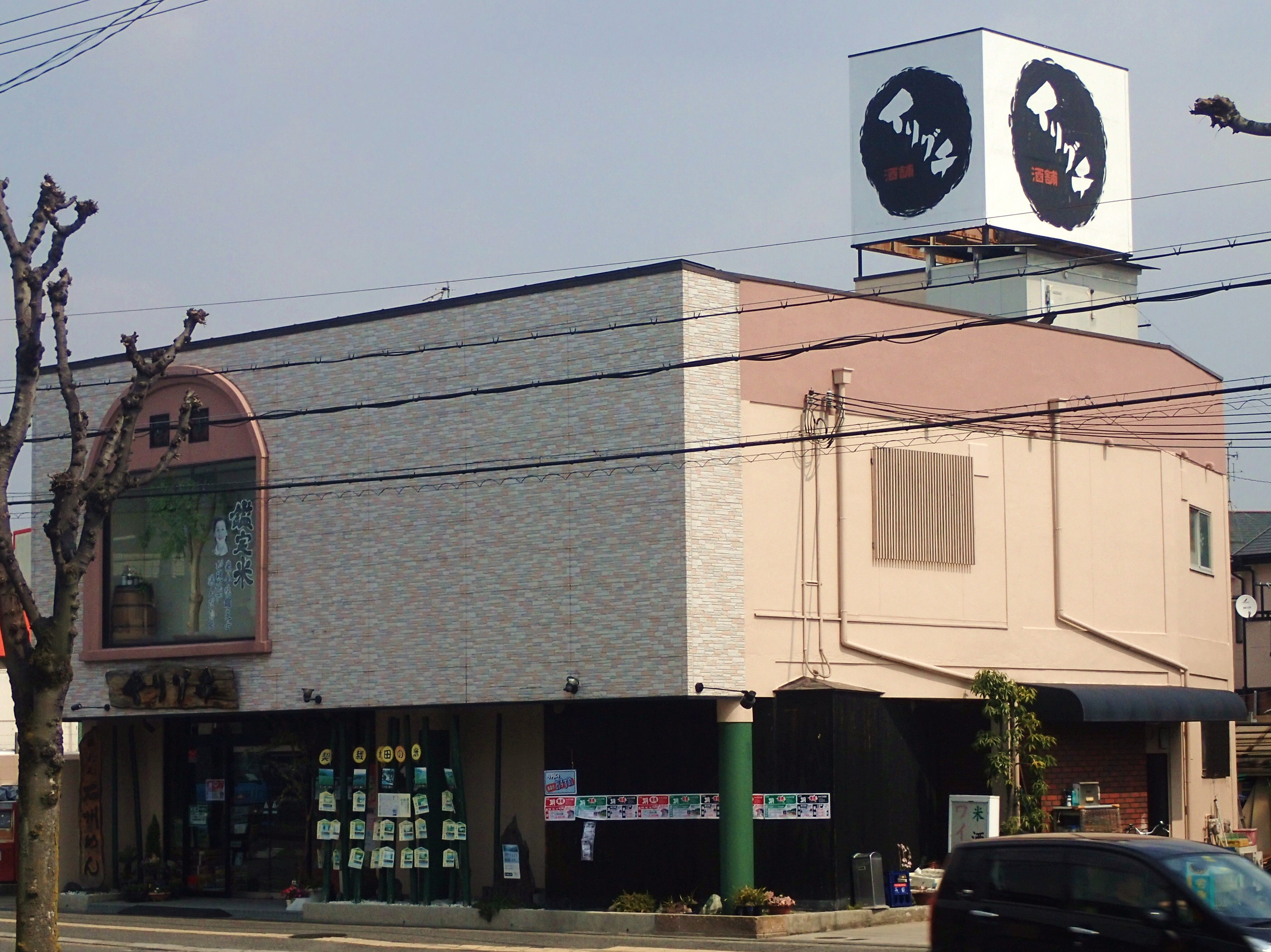 The appearance of the building.